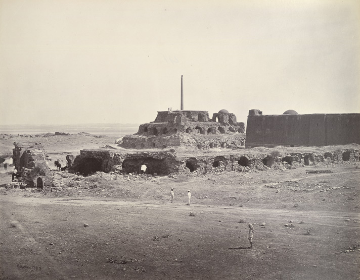 Ashoka Pillar at Firoze Shah Kotla, the fortified city founded in 1354 by the Tughluq ruler Firoz Shah Tughlaq. The Lat or Ashoka Column was originally erected by the Mauryan ruler Ashoka in the 3rd BC. It was brought by Firoz Shah from its original position at Ambala to Firozabad where it surmounts a pyramidal structure at the heart of the fort.